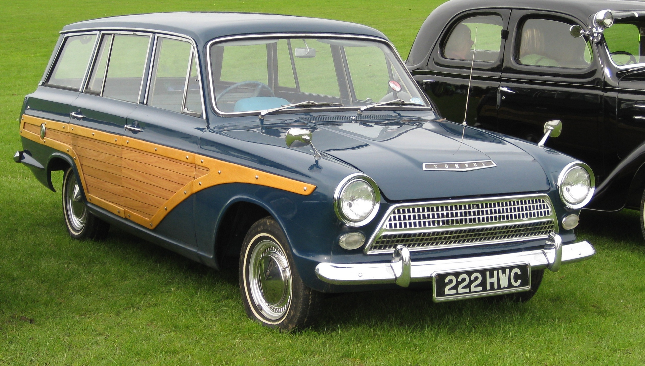 Ford Cortina Mk I estate with phoney timber side inserts